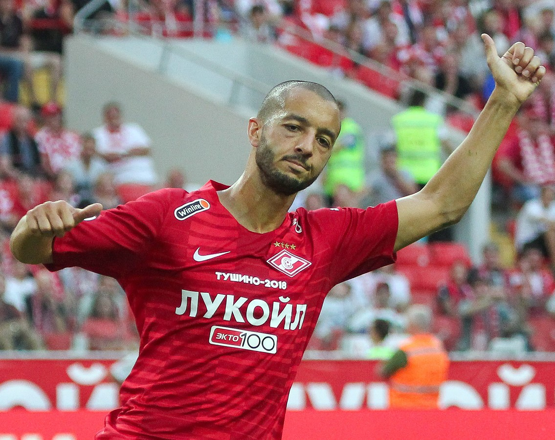 Sofiane Hanni